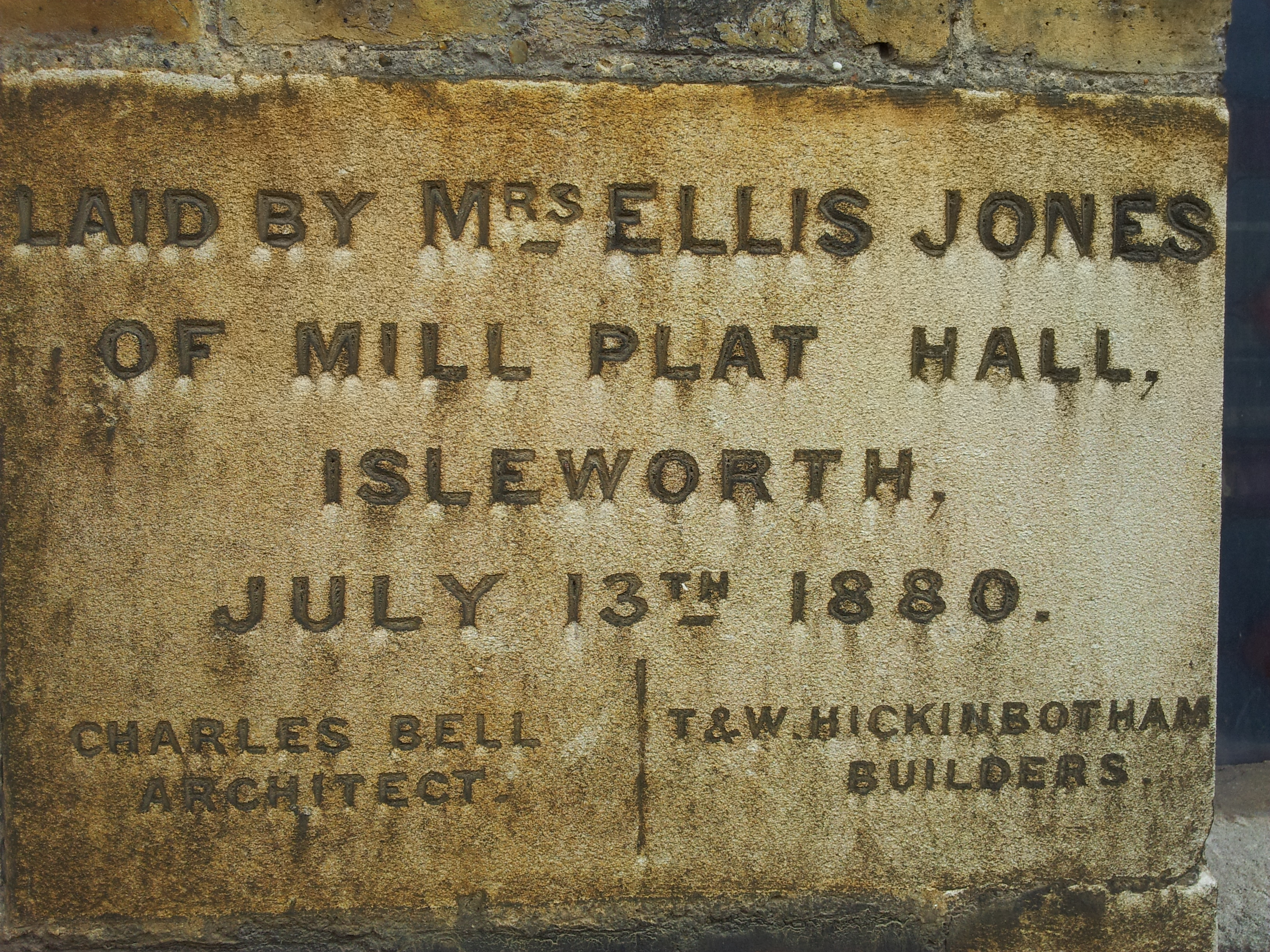 Twickenham Methodist Churh foundation stone